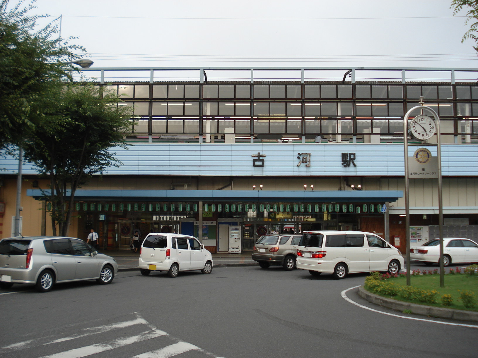 West Exit of Koga Station